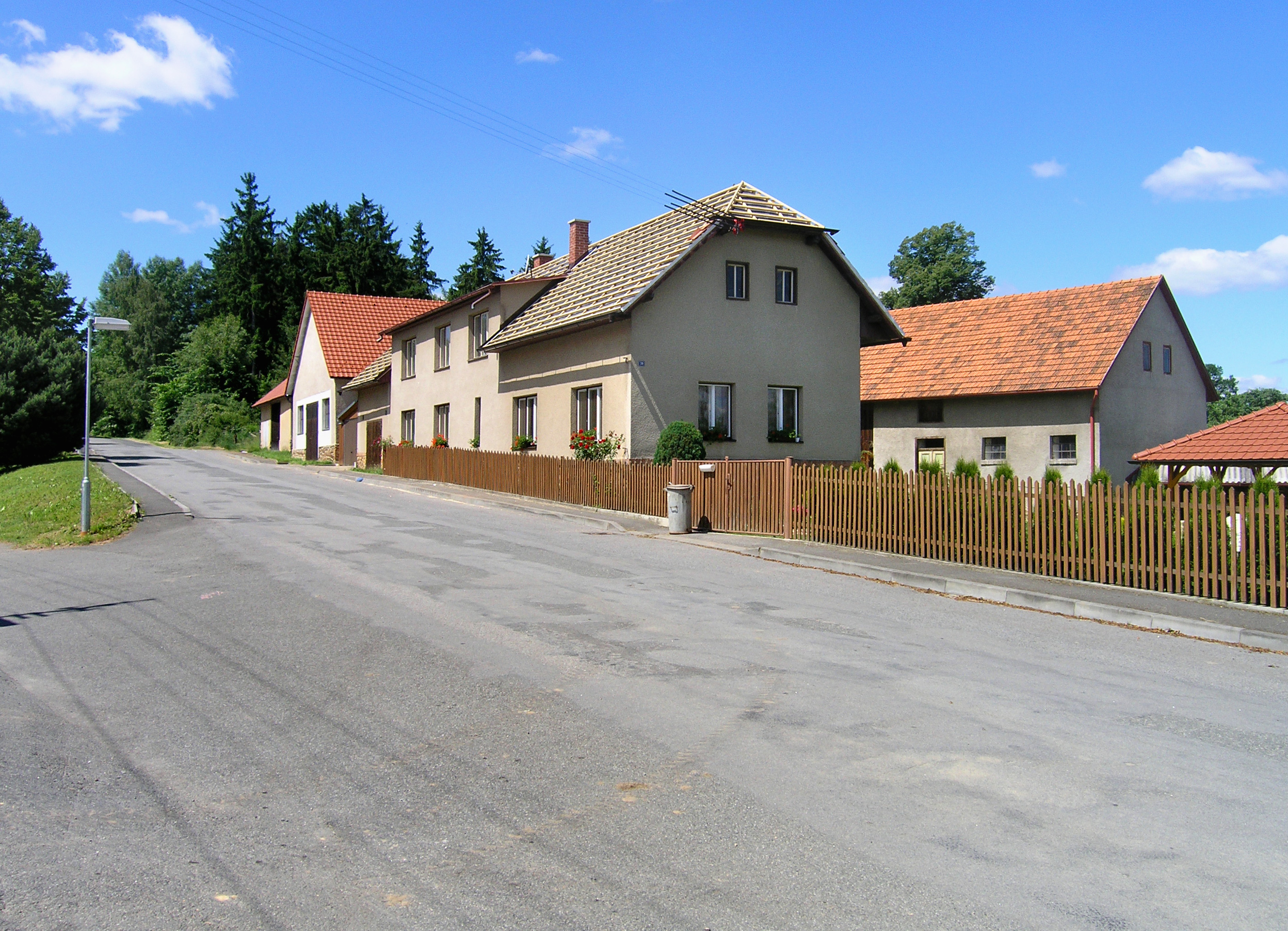 West part of Hořice village, Czech Republic